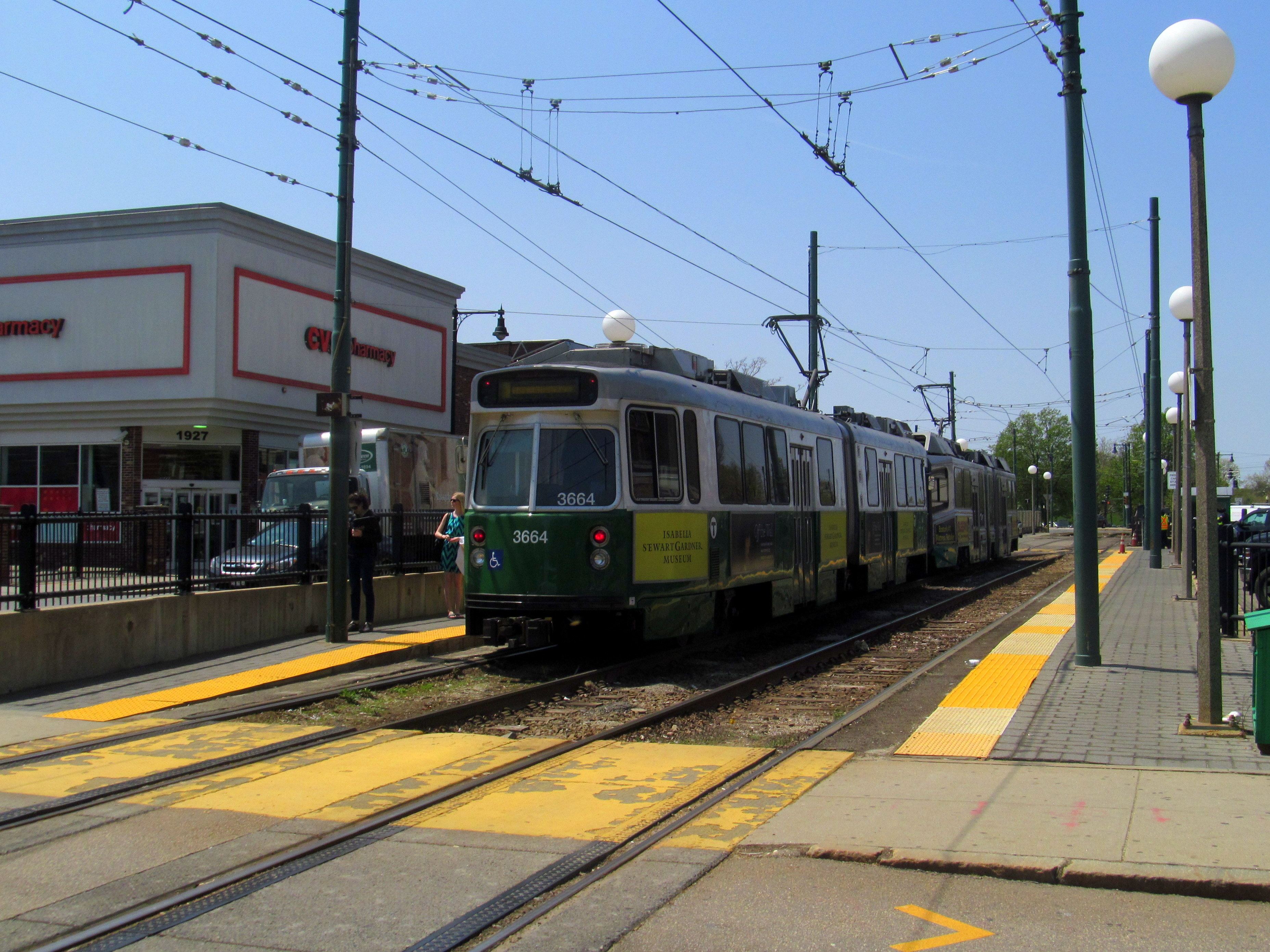 An inbound train at Cleveland Circle station in May 2016